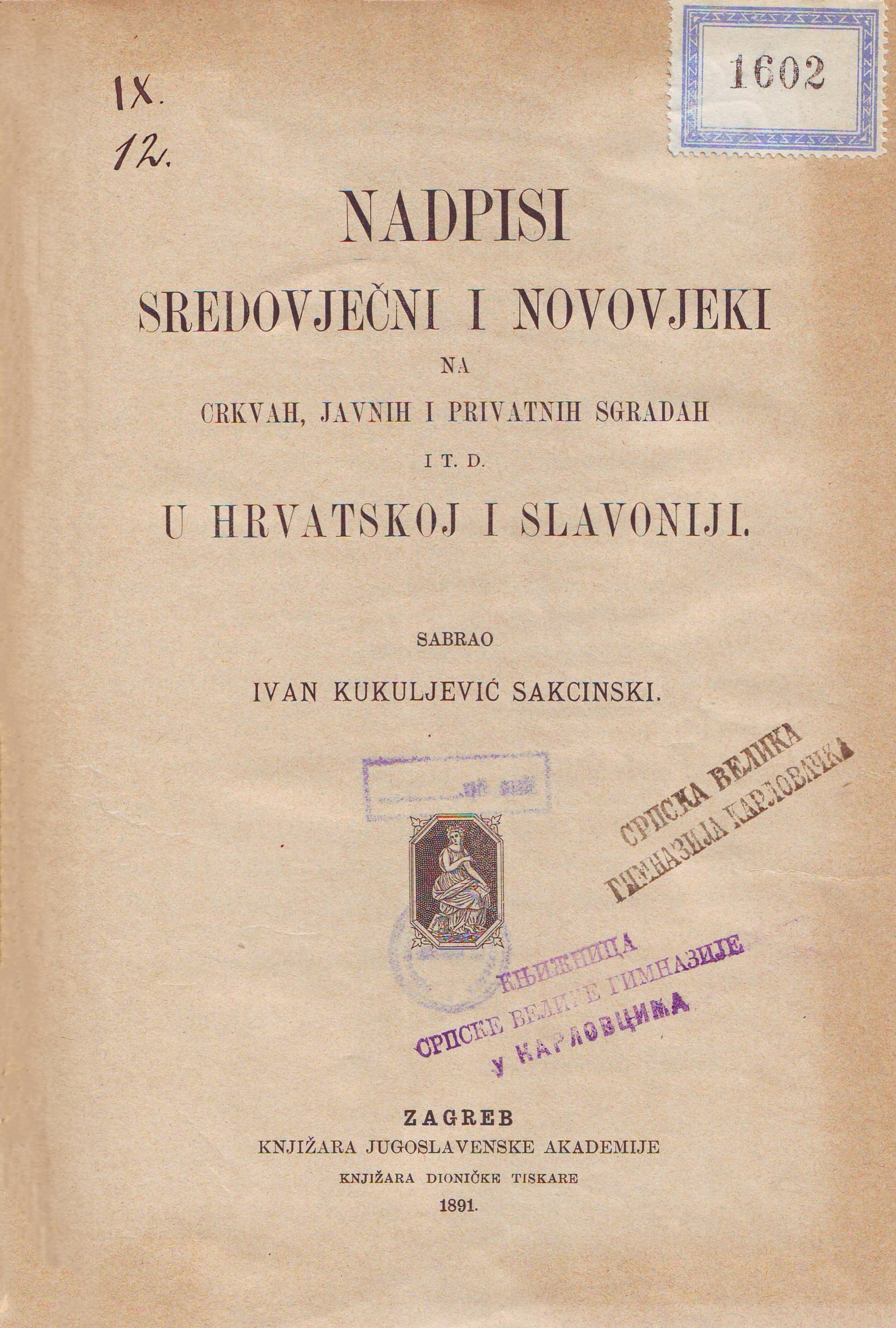 Cover of Nadpisi sredovječni i novovjeki na crkvah, javnih i privatnih sgradah itd. u Hrvatskoj i Slavoniji (1891) by Ivan Kukuljević Sakcinski. Srpski (latinica): Naslovna strana zbirke istorijskih izvora Nadpisi sredovječni i novovjeki na crkvah, javnih i privatnih sgradah itd. u Hrvatskoj i Slavoniji (1891) Ivana Kukuljevića Sakcinskog.